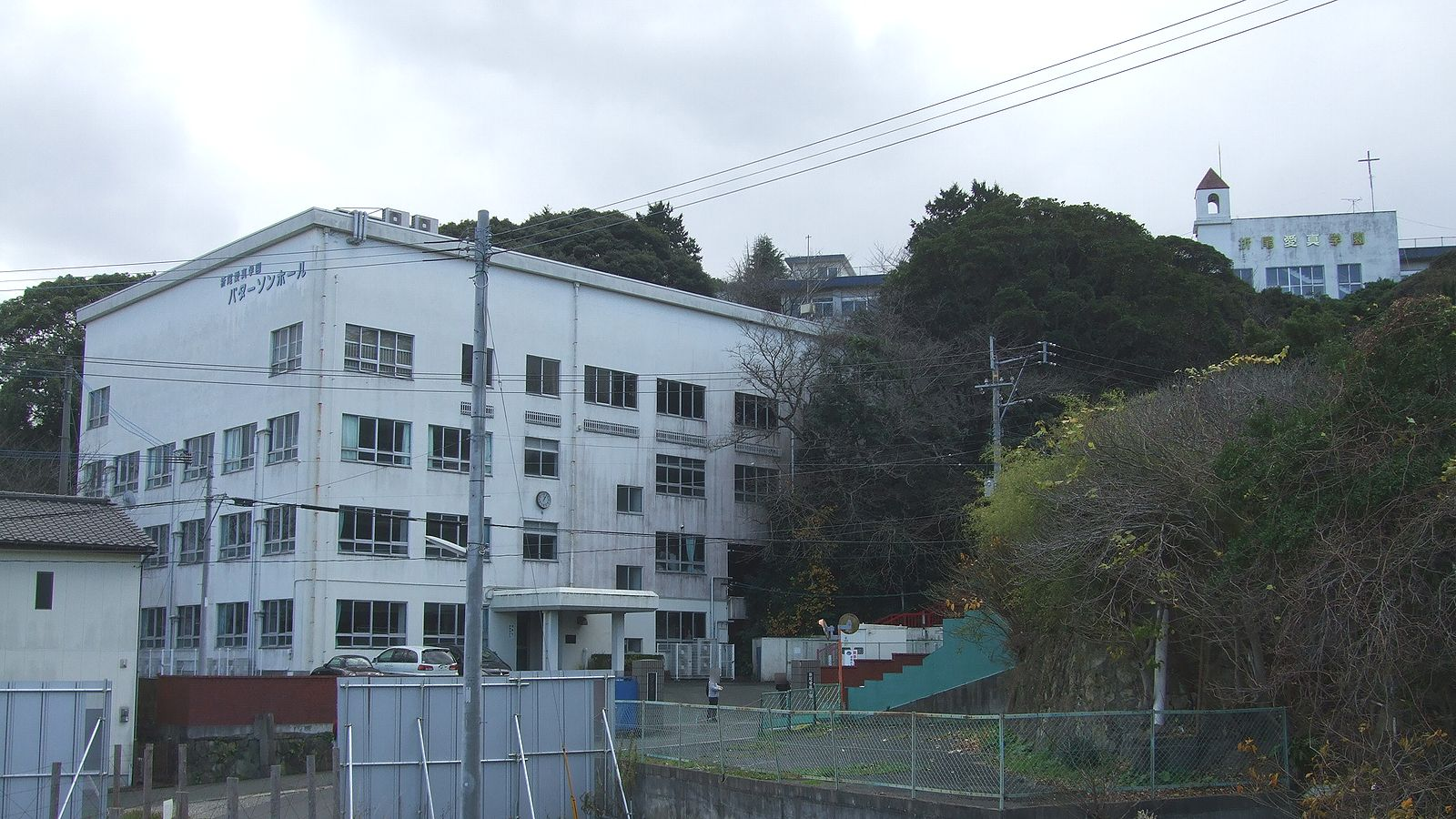 Orio Aishin Junior College Patterson Hall, Yahatanishi Ward, Kitakyushu City, Fukuoka, Japan.